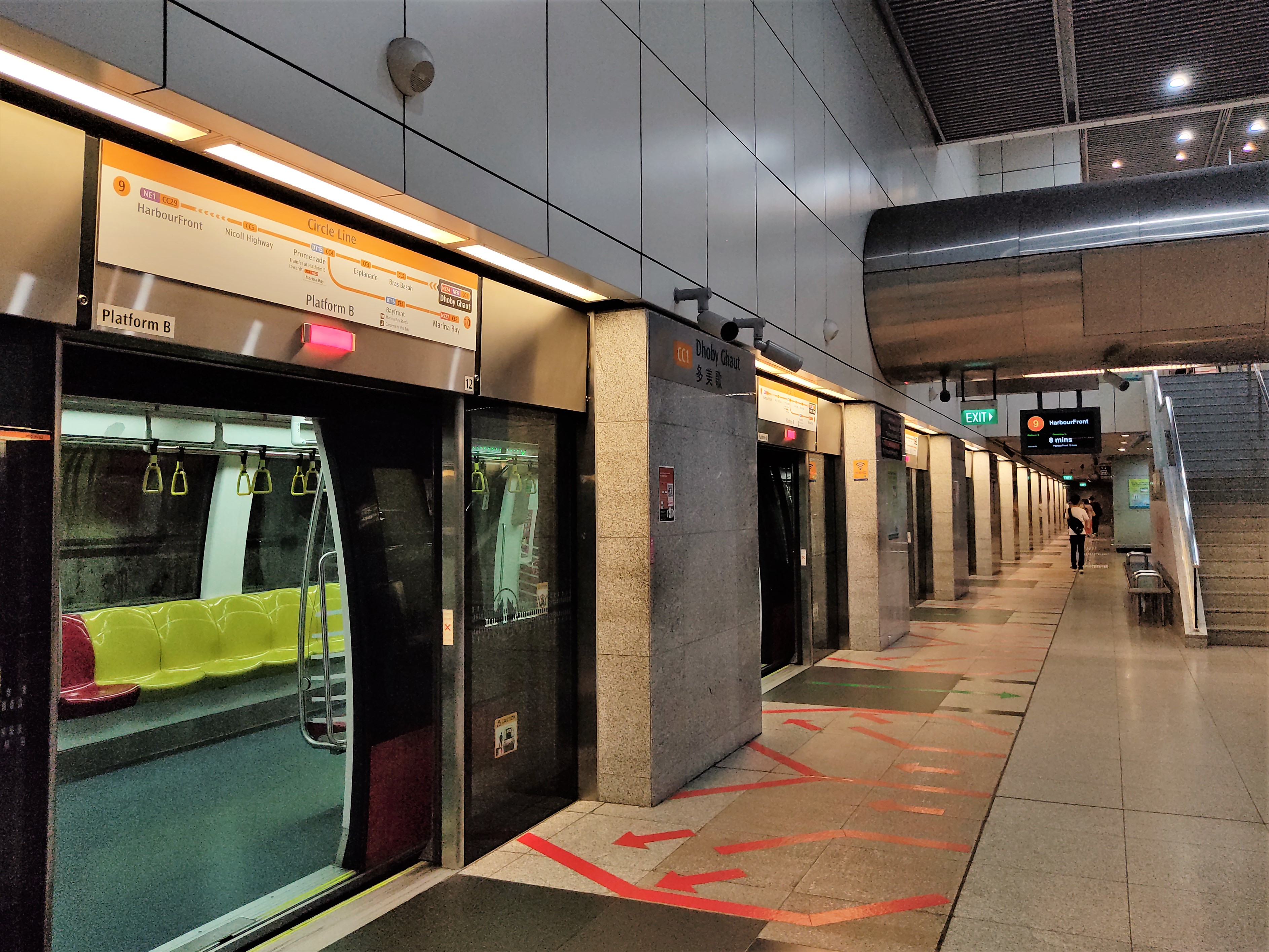 Dhoby Ghaut station